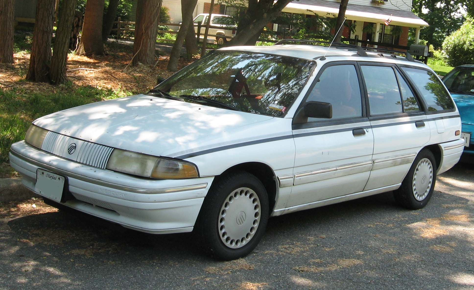 1991-1992 Mercury Tracer photographed in USA.